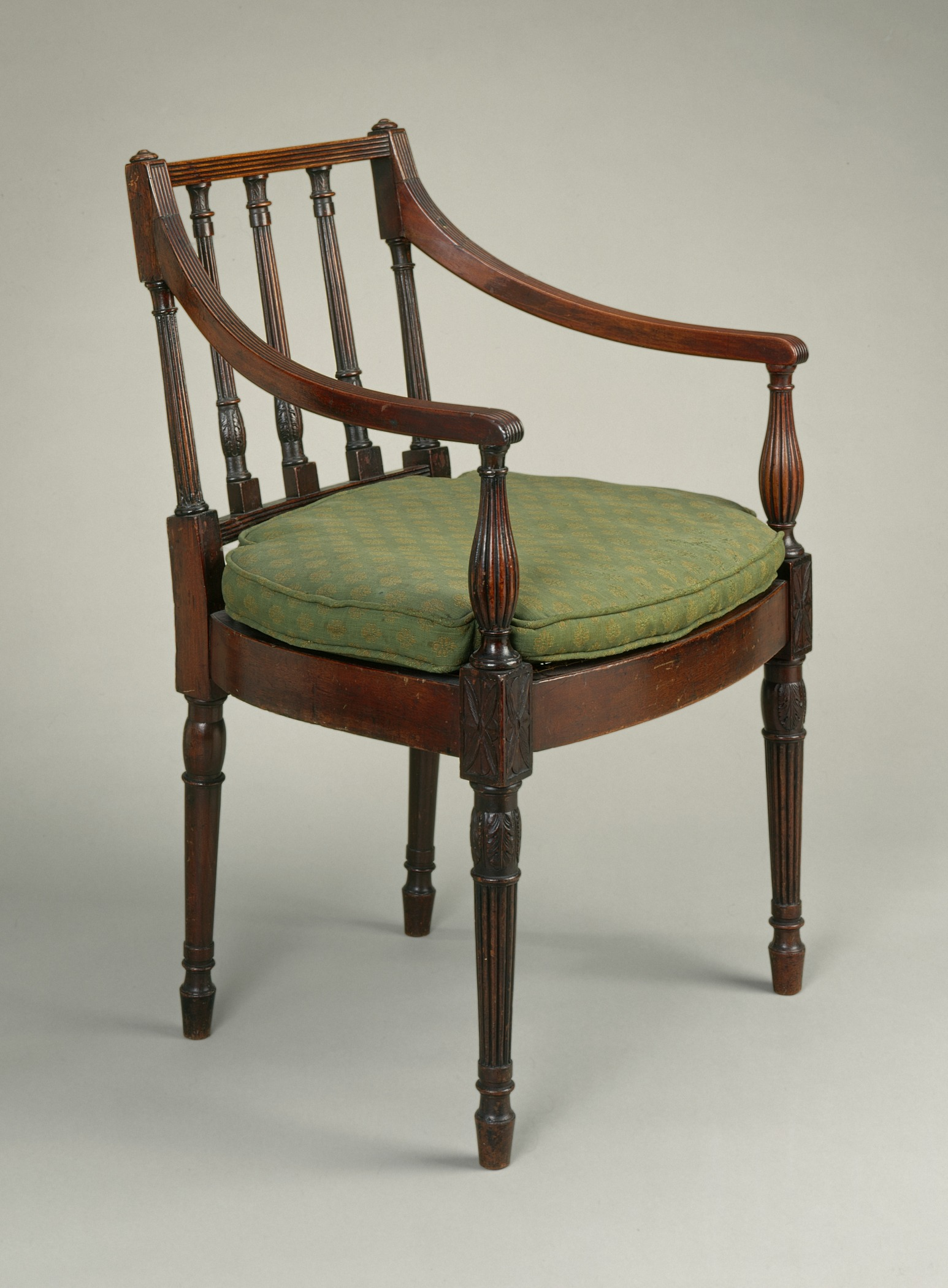 United States, 1805-1815 Furnishings; Furniture Mahogany, cane Col. and Mrs. George J. Denis Fund (54.141.2) Decorative Arts and Design